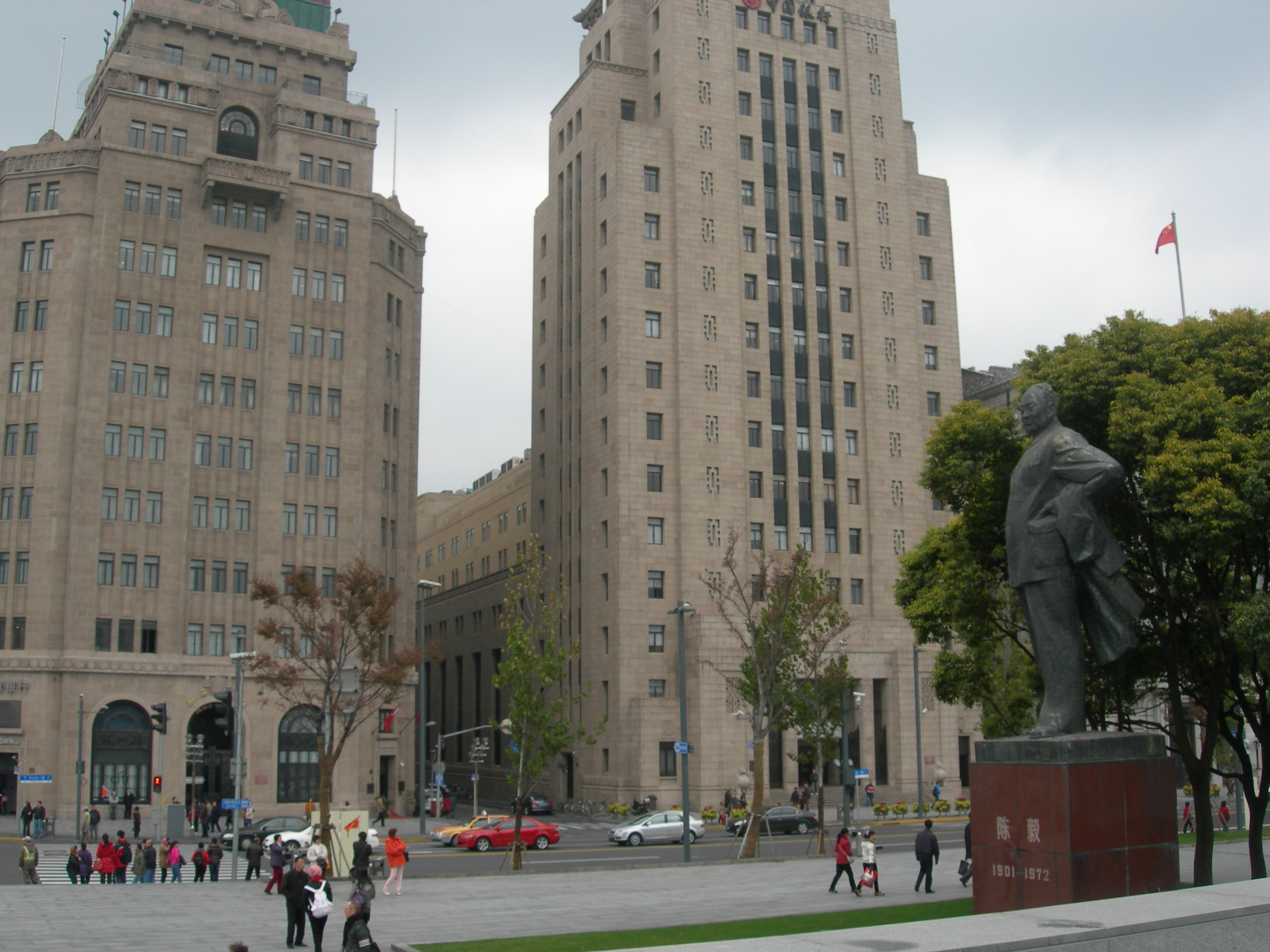 Looking at the intersection of East Zhongshan No.1 Road and Dianchi Road, from Chen Yi Plaza, part of the Bund in Shanghai, China.